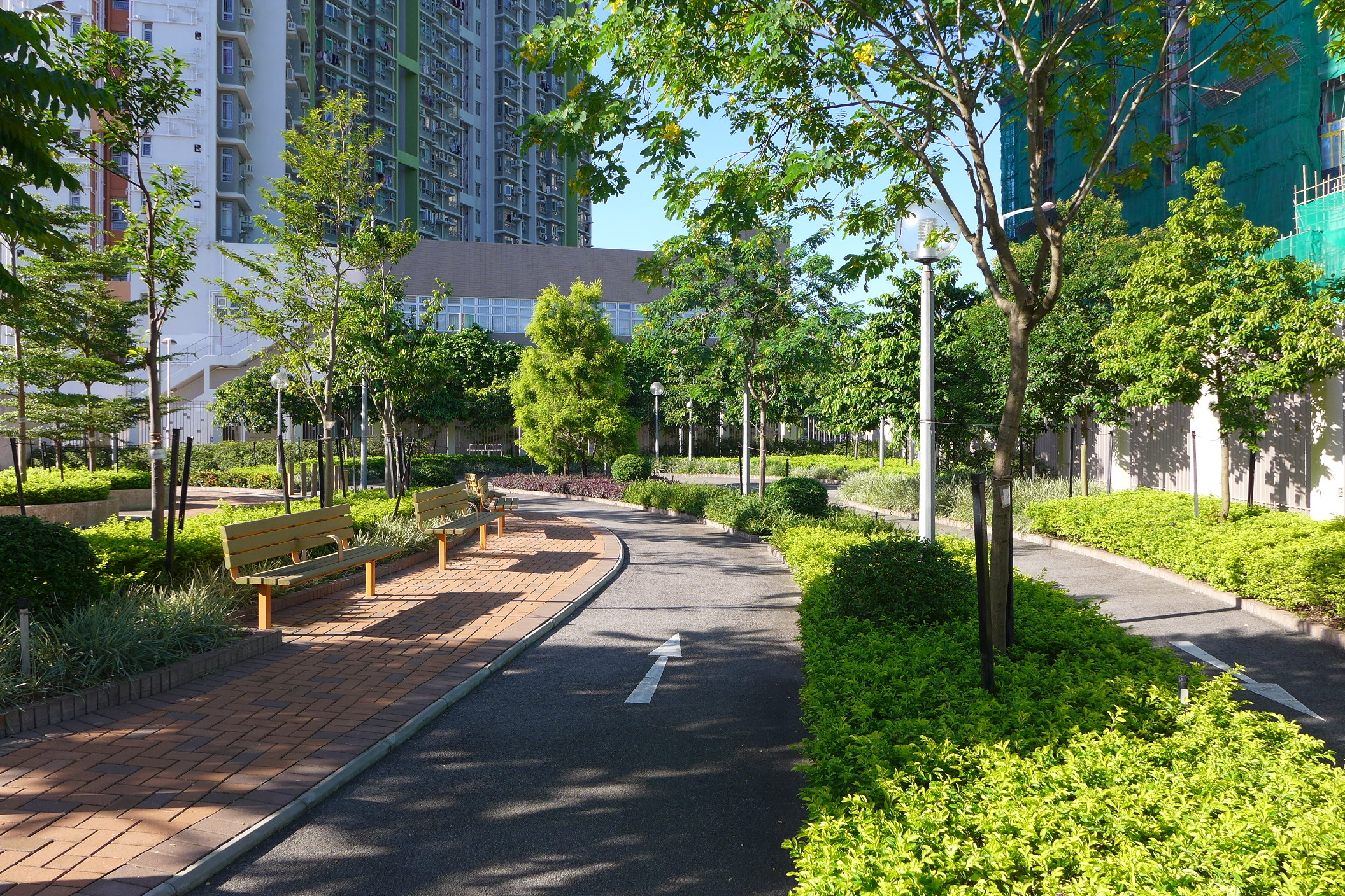 Yee Ming Estate Park Cycling Path